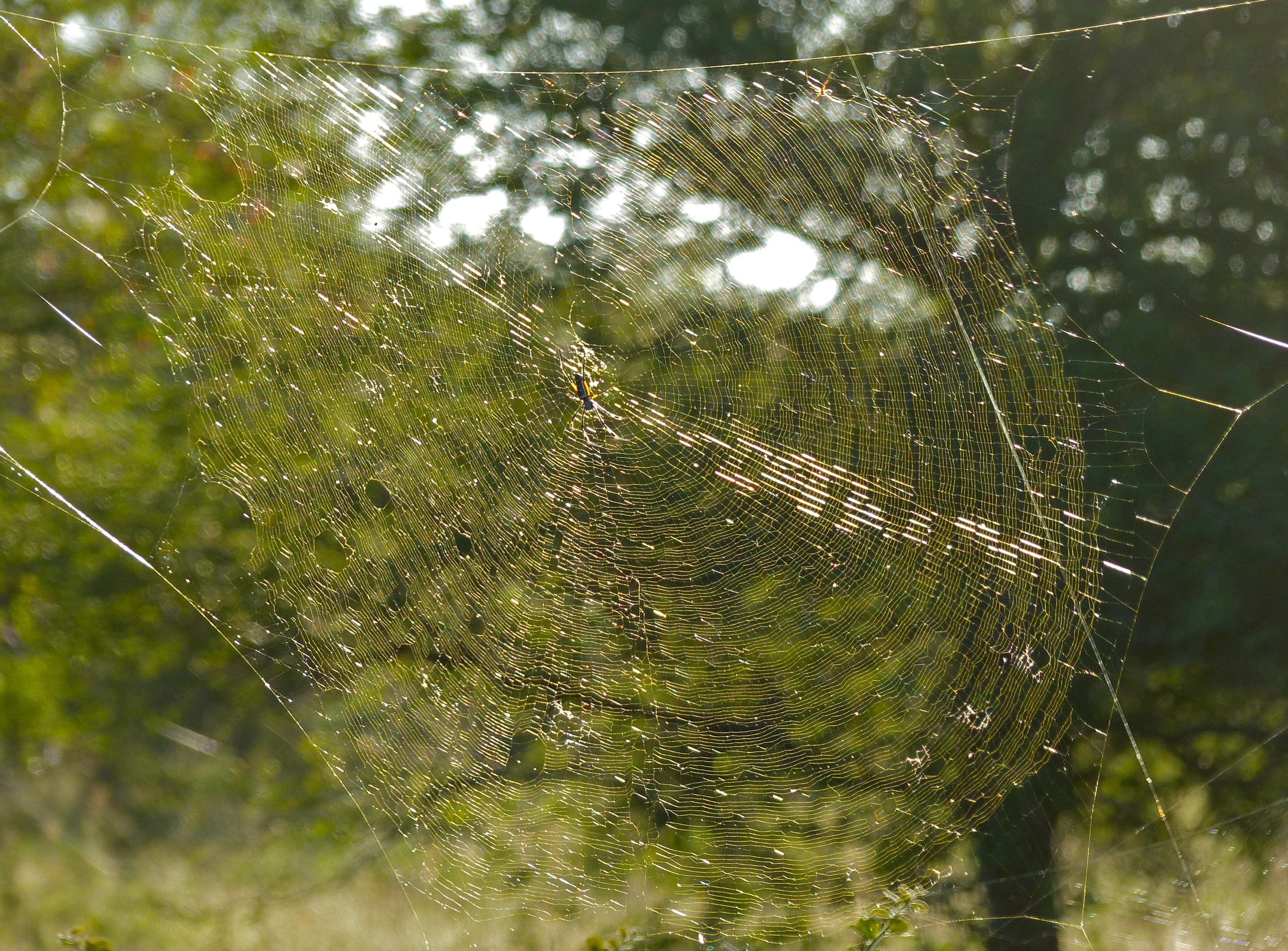 H7 Road East of Orpen, Kruger NP, SOUTH AFRICA